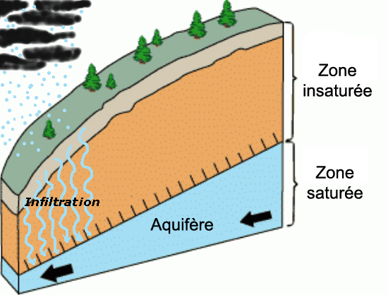 Cross-section of hillslope depicting vadose zone, aquifer and infiltration process. Source: USGS URL